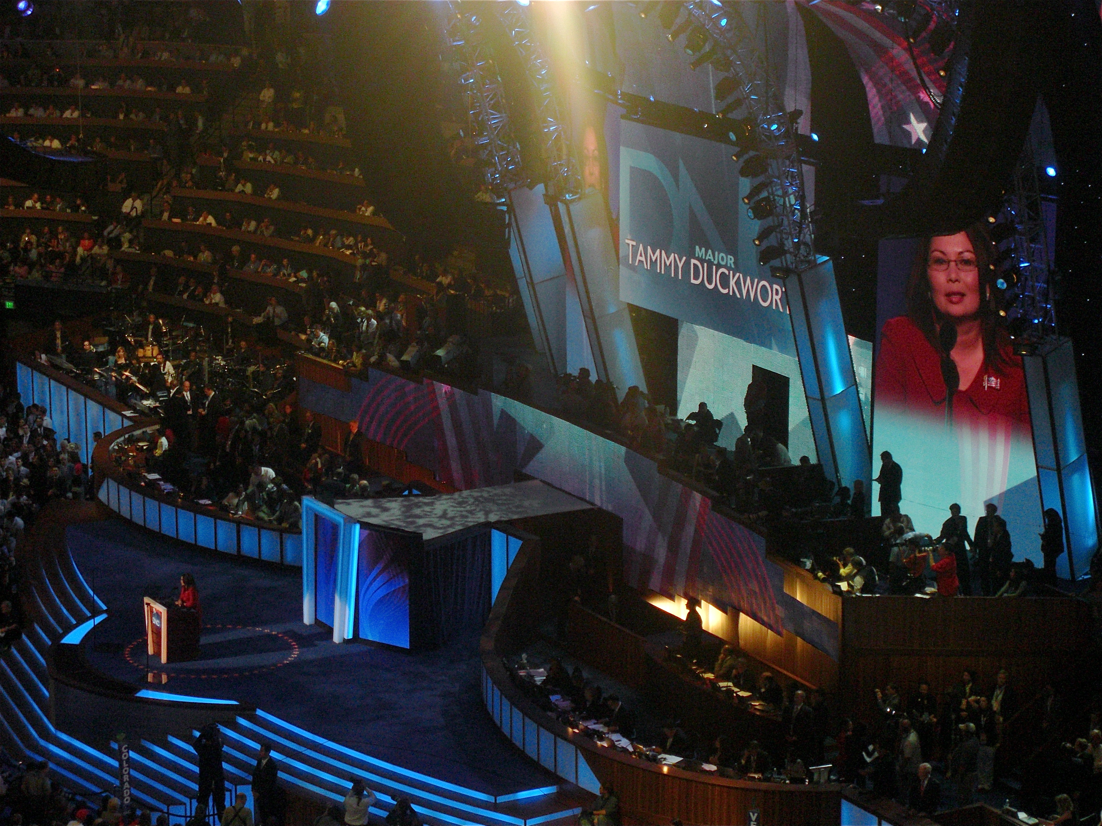 Tammy Duckworth speaks during the third night of the 2008 Democratic National Convention in Denver, Colorado.